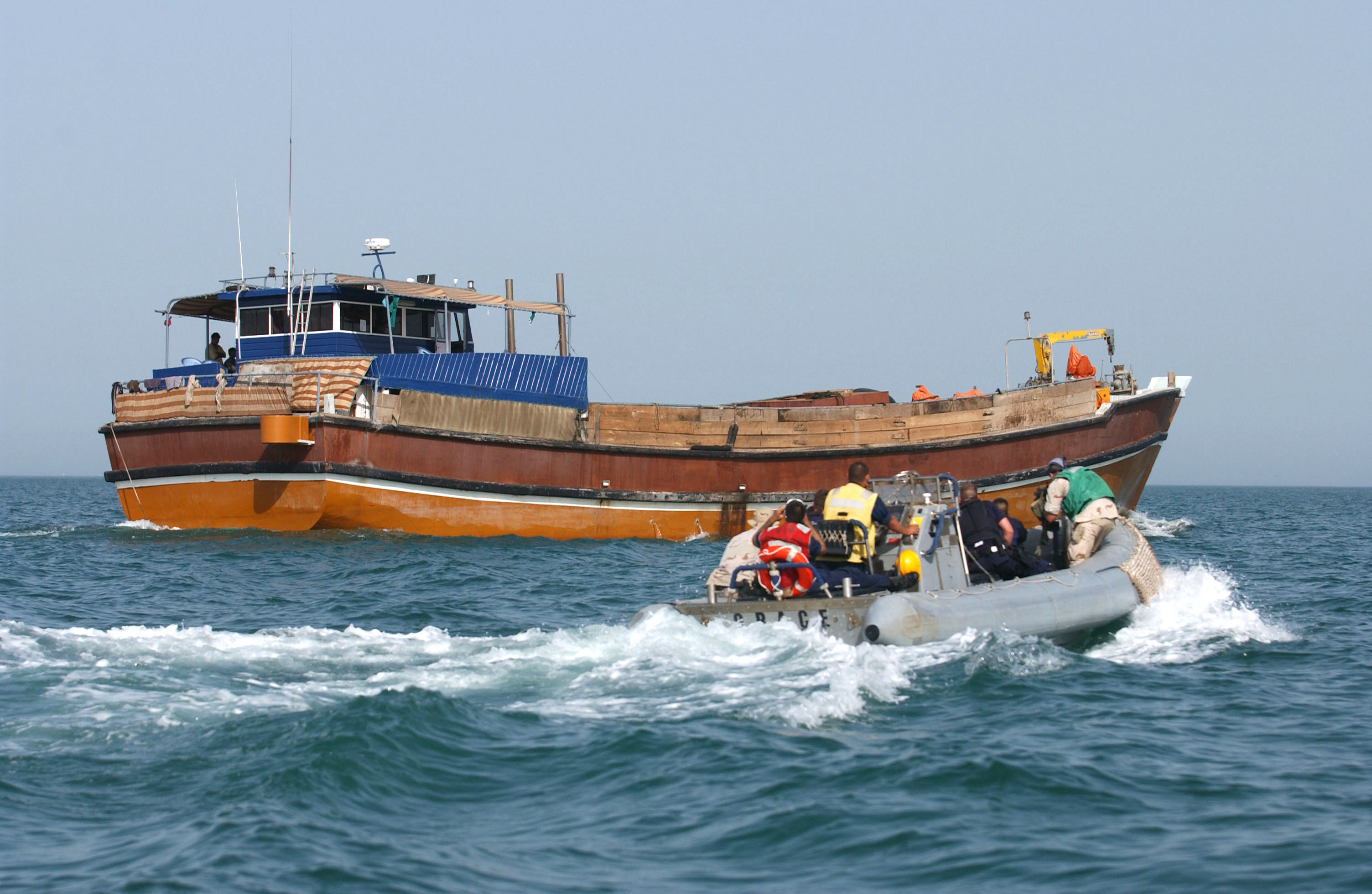 Arabian Sea (Aug. 2, 2002) -- Sailors from the U.S. Navy guided missile destroyer USS Hopper (DDG 70) homeported in Pearl Harbor, Hawaii, and members of the United States Coast Guard (USCG) Law Enforcement Detachment (LEDET) 106 homeported in San Diego, Calif., prepare to board a merchant vessel suspected of smuggling oil out of Iraq. LEDET-106 is currently assigned enforcement tasks aboard USS Hopper. Boarding teams have been conducting Maritime Interception Operations (MIO) searching for contraband cargo aboard merchant ships in the area to support UN sanctions against Iraq. MIO is a coalition effort that enforces United Nations Security Council Resolutions (UNSCR) imposed against the government of Iraq following the 1991 gulf war. The United Nations prohibits cargo originating from Iraq and any imports not accompanied by a U.N. authorization letter. USS Hopper is currently on a regularly scheduled deployment in support of Operation Enduring Freedom. U.S. Navy photo by Chief Photographer’s Mate Johnny R.Wilson. (RELEASED)